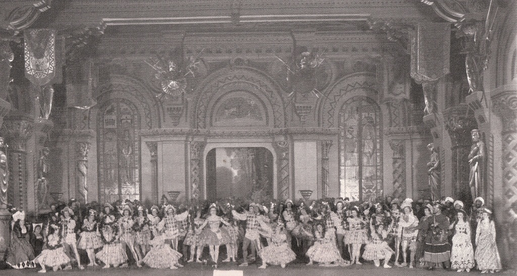 Photograph of a scene from the original production of the choreographer Marius Petipa (1818-1910) & the composer Alexander Glazunov's (1865-1936) 1898 ballet "Raymonda". The photograph shows the stage of the Mariinsky Theatre with cast and dressed in the décor of the third act of the ballet.